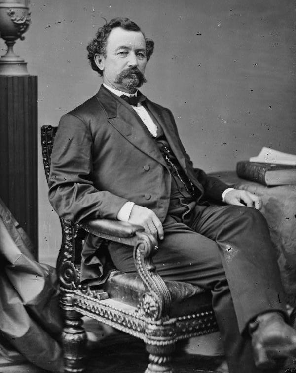 Hon. Wm. Mungen of Ohio.